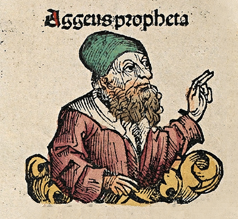 The biblical prophet Haggai. Woodcut from the Nuremberg Chronicle